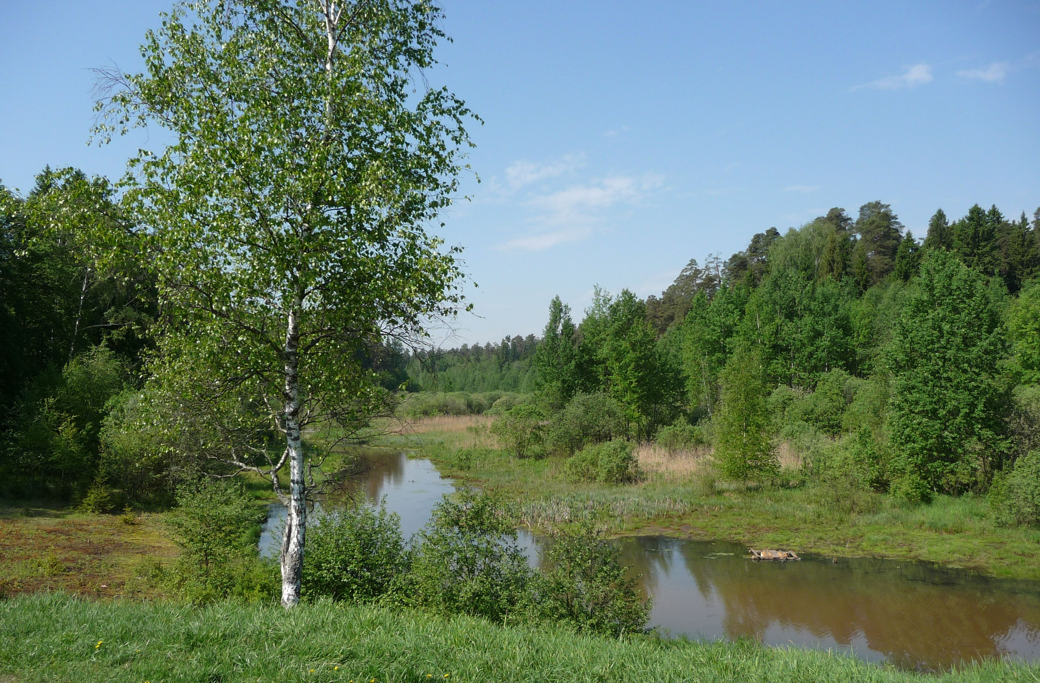 Lyuboseyevka River_before_falling_into_the_Vorya_River. About the villadge of Mednoye-Vlasovo. Shchyolkovsky District of Moscow Oblast, Russia.